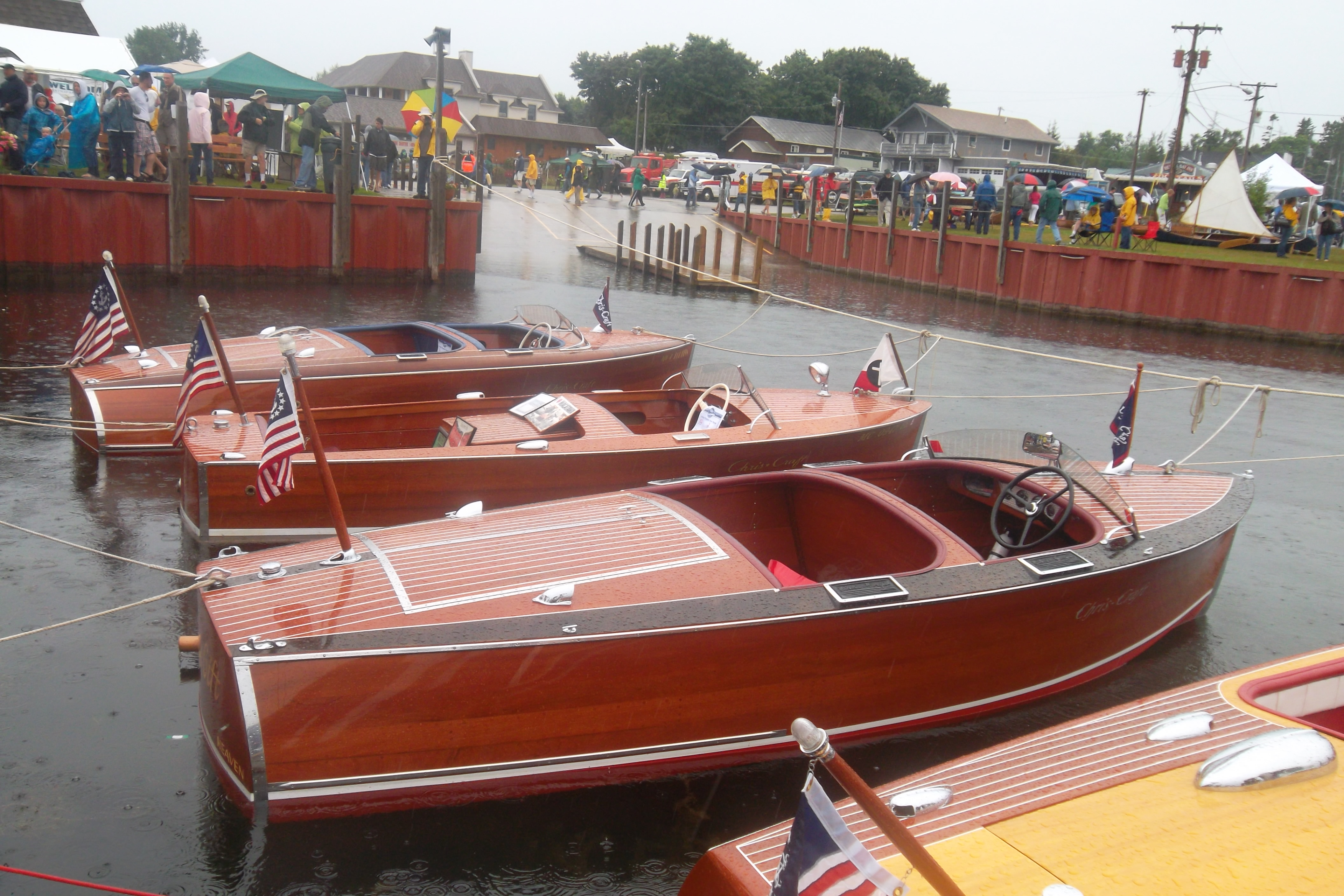 Les Cheneaux Antique Wooden Boat Show 2011